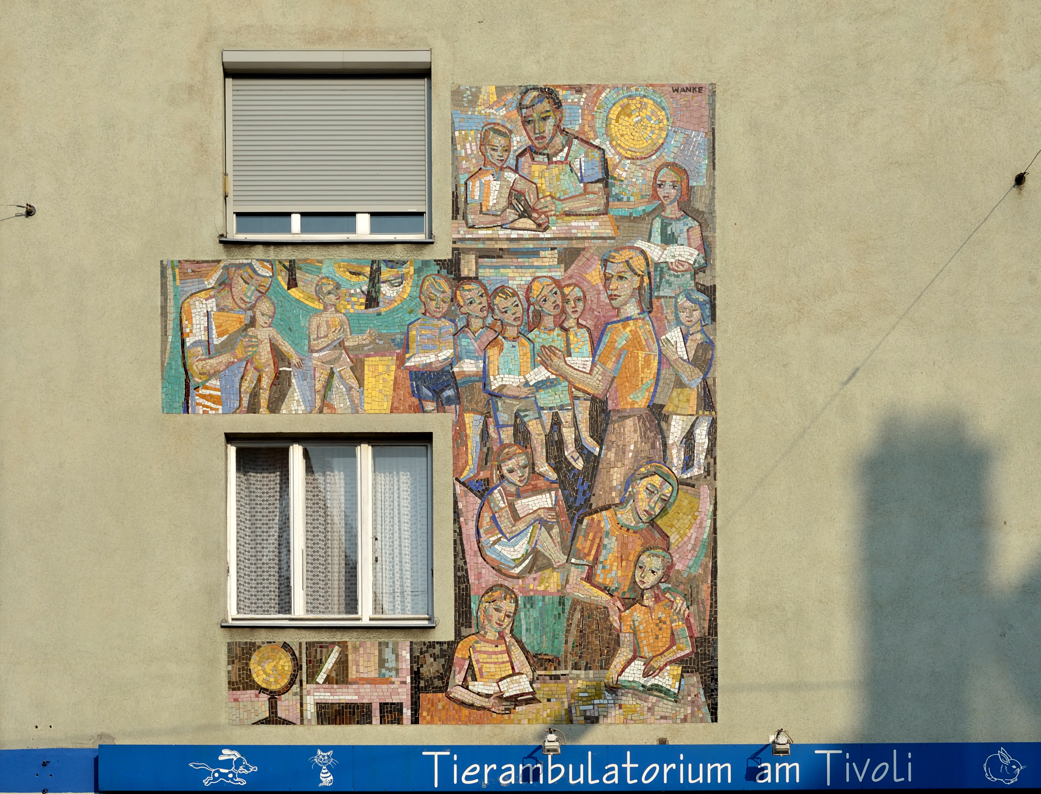 Public housing Spittelbreitengasse 23, Meidling, Vienna, towards Aichholzgasse. Mosaic Lernende Kinder (learning children) by Johannes Wanke